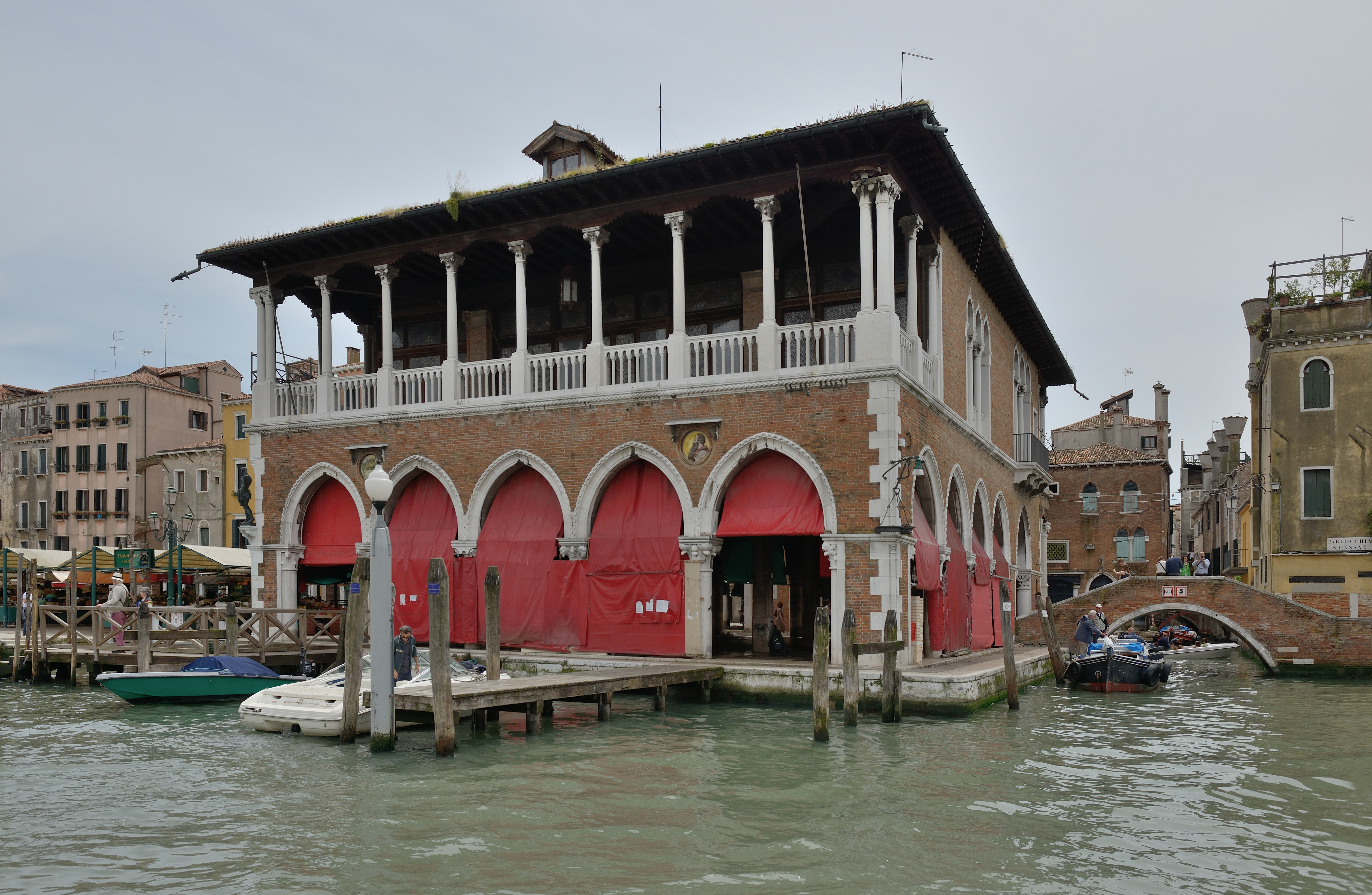 Pescaria (Gothic Revival, 20th century) Venice - Progetto di Domenico Rupolo e Cesare Laurenti